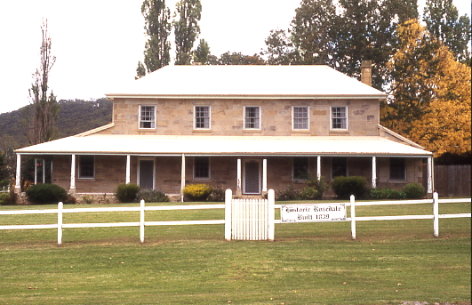 Copyright Neil Paton 2007